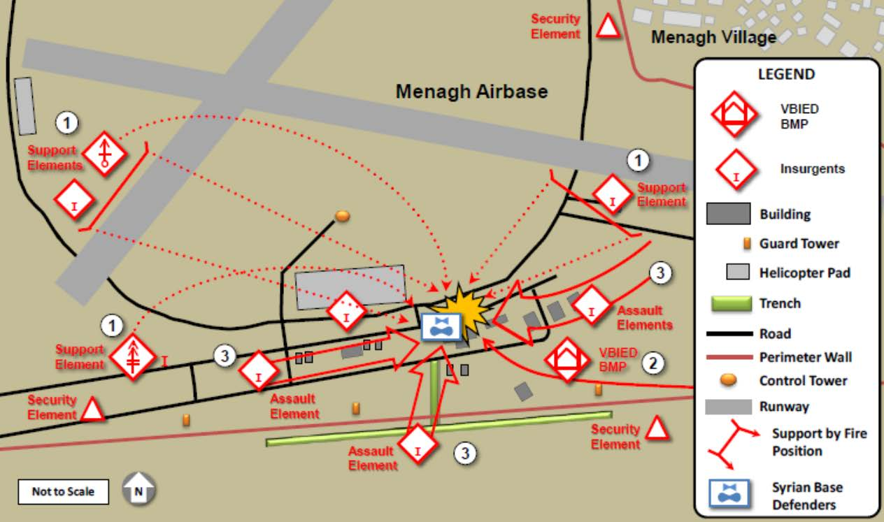 This map shows the siege and fall of Menagh airbase, in Syria, in August 2013.